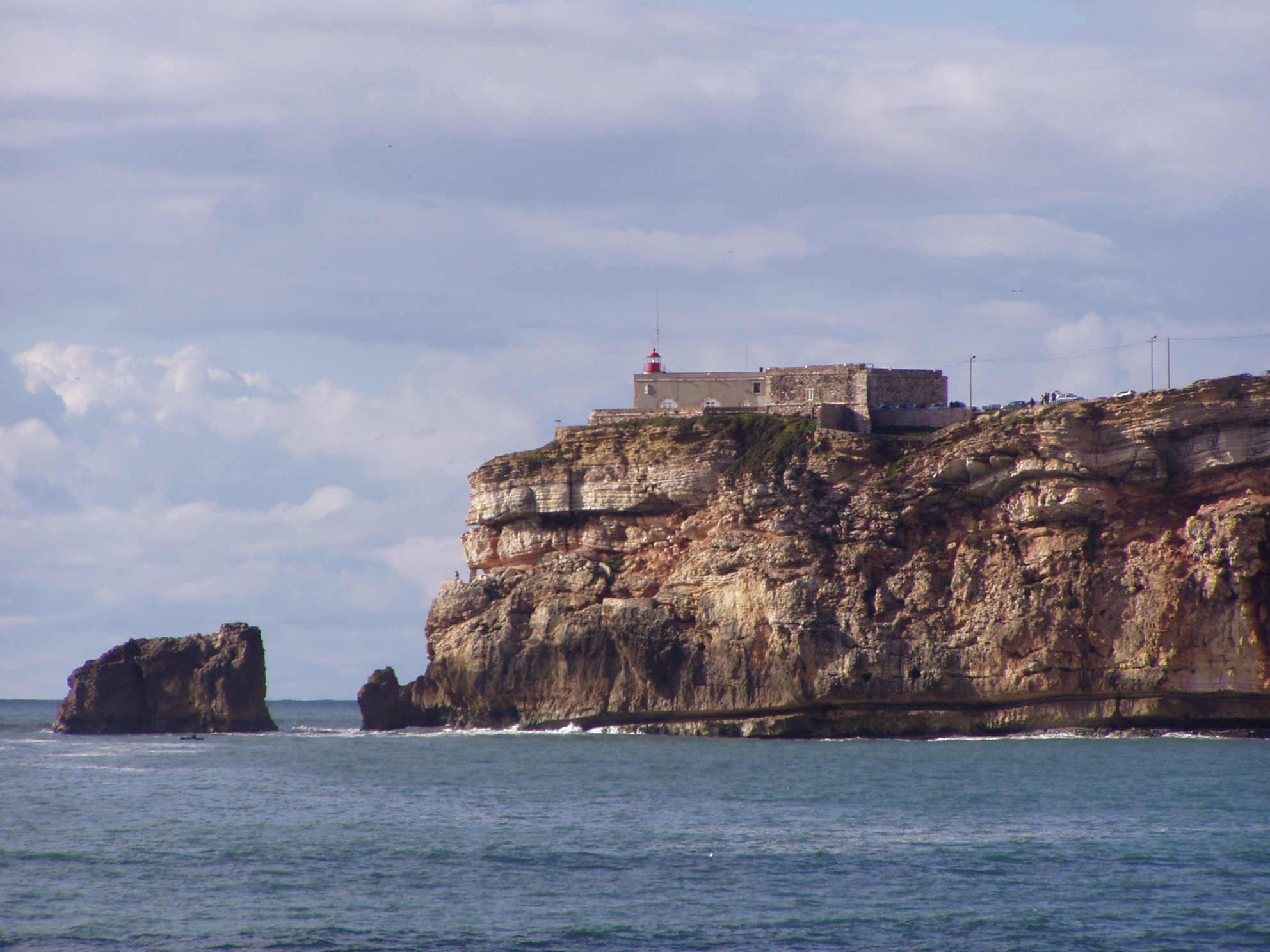 Fort of Saint Michael the Archangel (Fort of São Miguel Arcanjo) on Sítio da Nazaré, Nazaré, Portugal. Picture taken from south (Nazaré beach). The stack in front, called Guilhim Rock (Pedra do Guilhim), is a popular fishing spot.